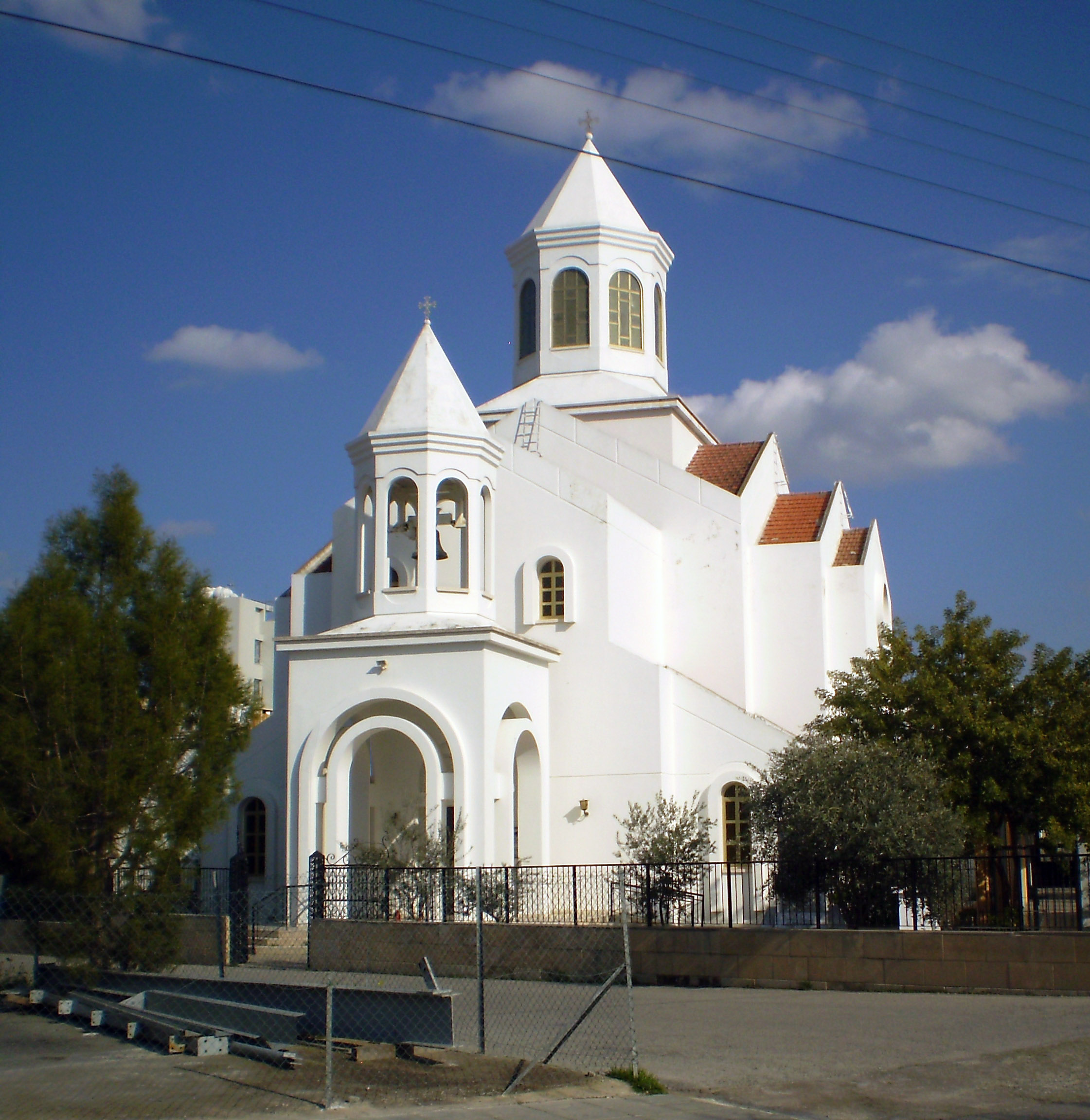 The façade of the Sourp Asdvadzadzin church